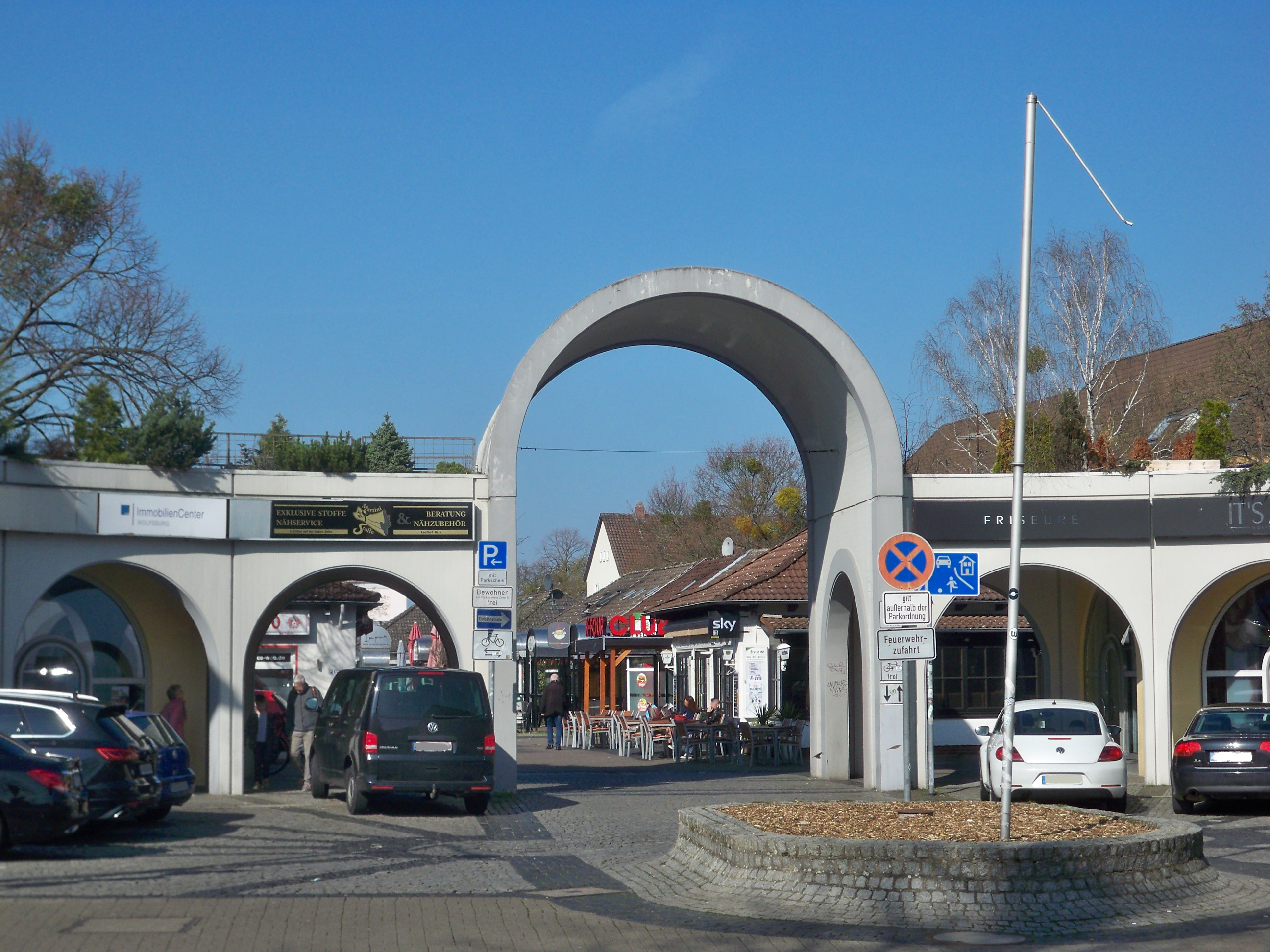 Wolfsburg, Lower Saxony, Kaufhof street from east to west